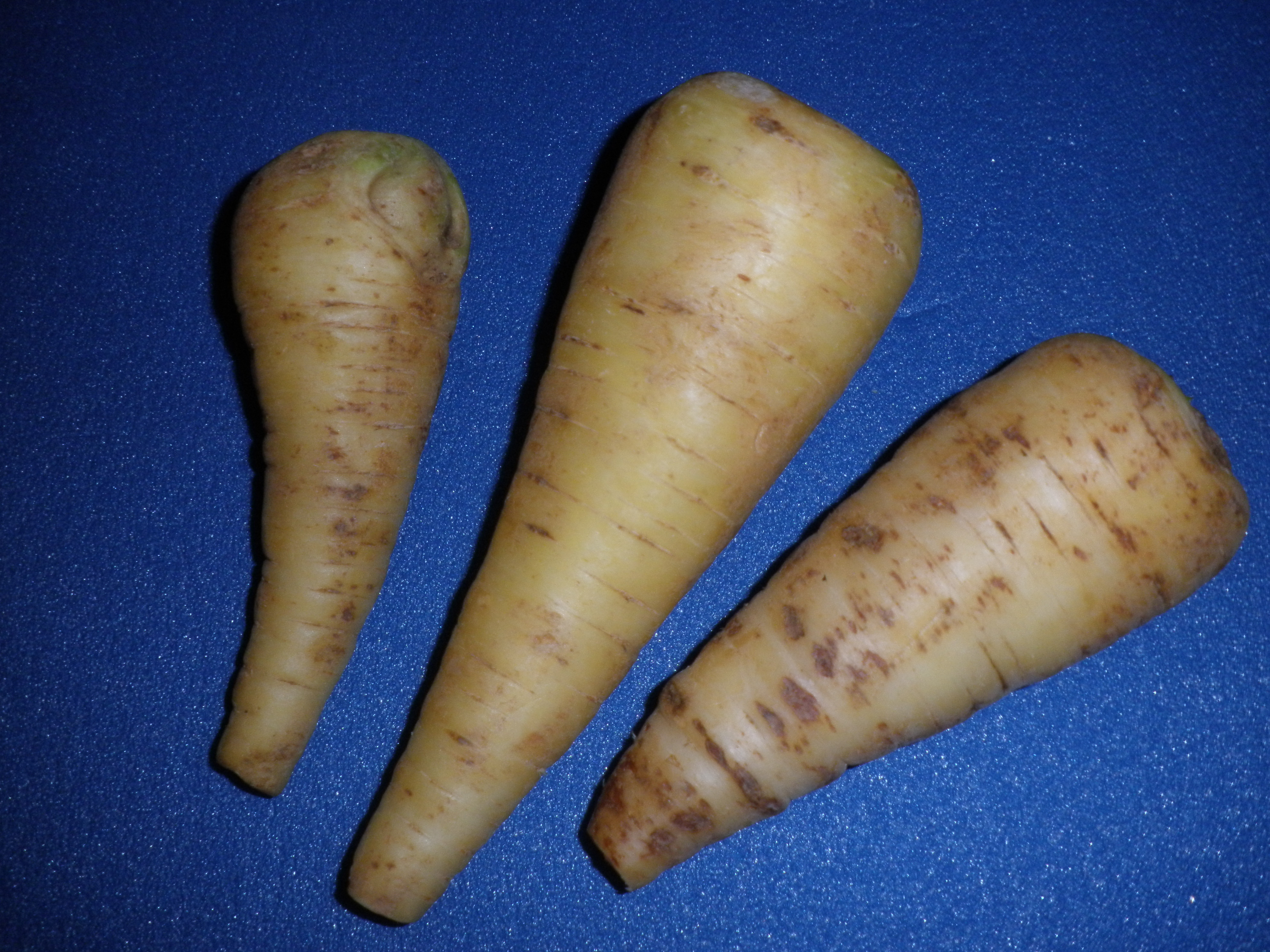 Carrots from Kuettingen (Switzerland) Special old brand of carrots